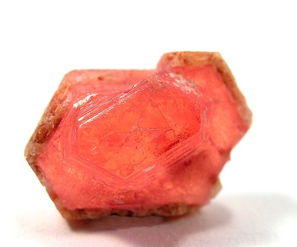 Pezzottaite Locality: Sakavalana mine, Ambatovita, Mandrosonoro area, Ambatofinandrahana District, Ampandramaika-Malakialina Pegmatite Field, Amoron'i Mania Region, Fianarantsoa Province, Madagascar (Locality at ) This is a lovely, rich pink, translucent to transparent, well formed, lustrous, tabular, crystal of beryl. This is the newly discovered and named pezzotaite, or cesium-rich beryl species. I bought this from the very first finds, before they were even identified as a new species in 2002, and sold it to Irv at that time. Today, they are obviously much more expensive but beyond that, good symmetric crystals are hard to find. 1.6 x 1.3 x 0.6 cm (10.5 carats)